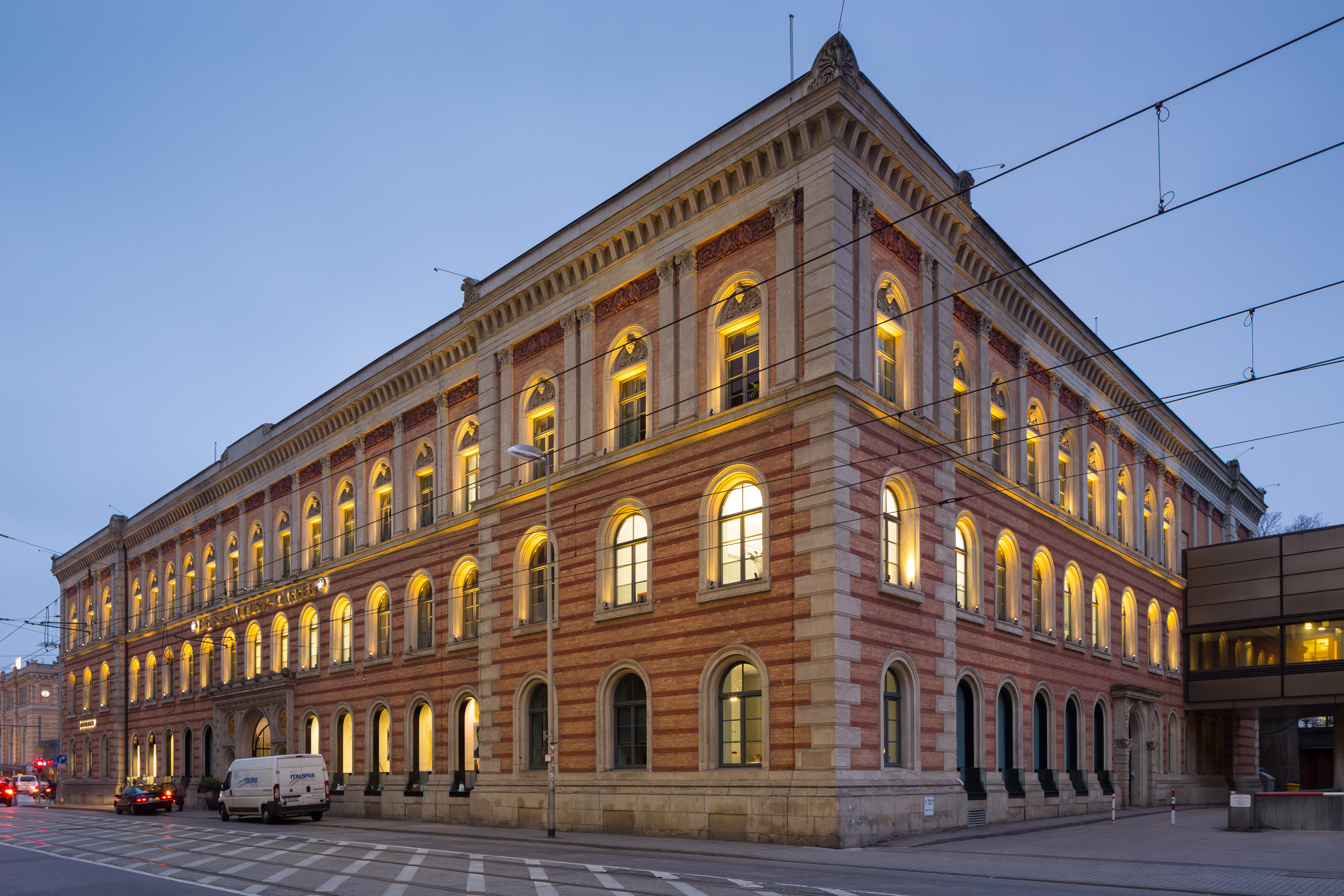 Ernst-August-Caree building located at Fernroder Strasse and Joachimstrasse in Mitte district of Hanover, Germany.